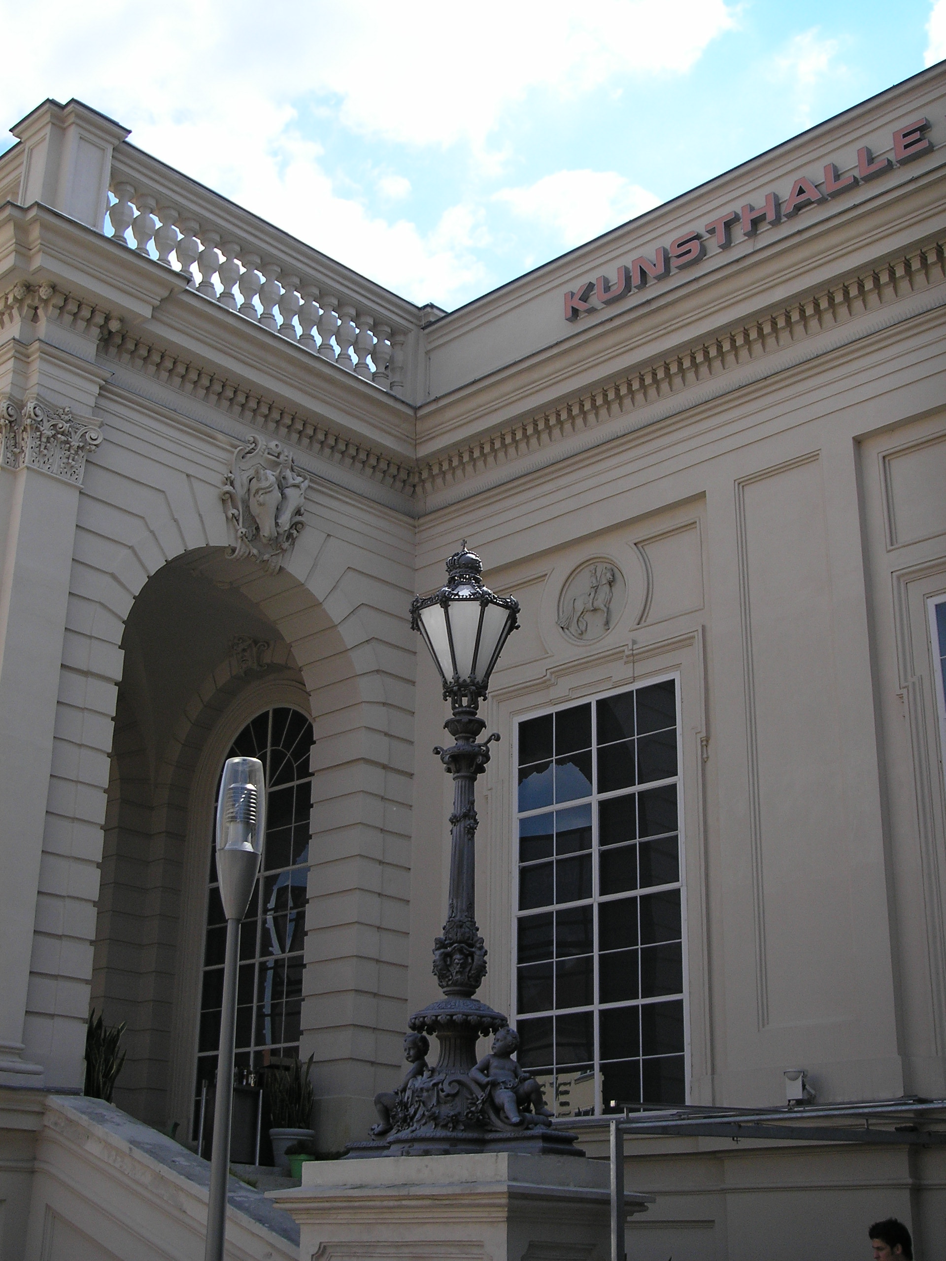 Austria, Vienna, Kunsthalle